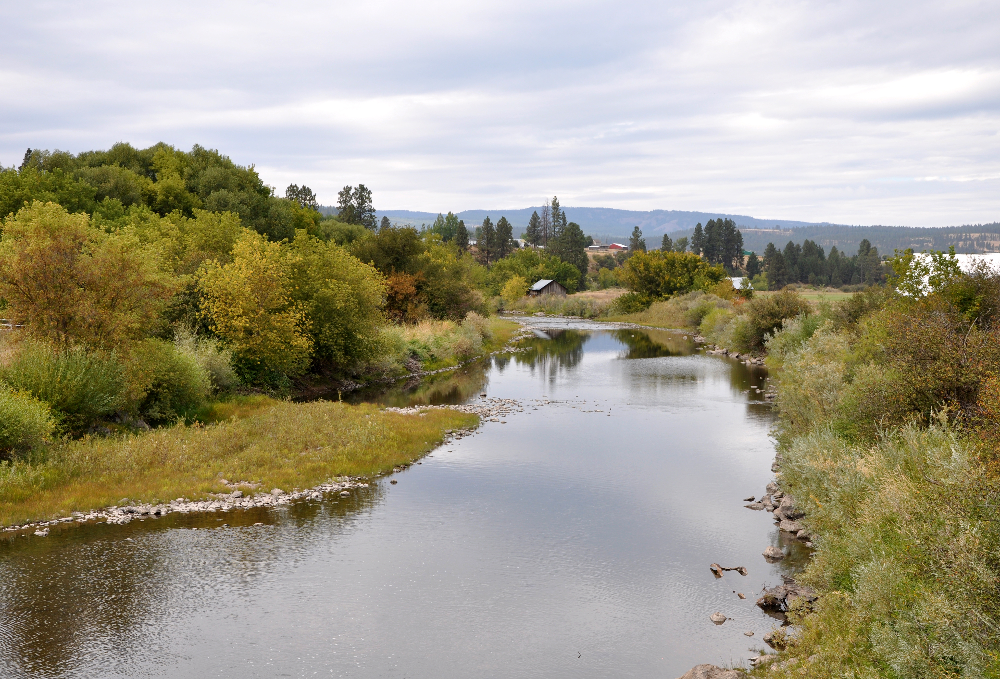 Grande Ronde River at Elgin, Oregon, in the United States